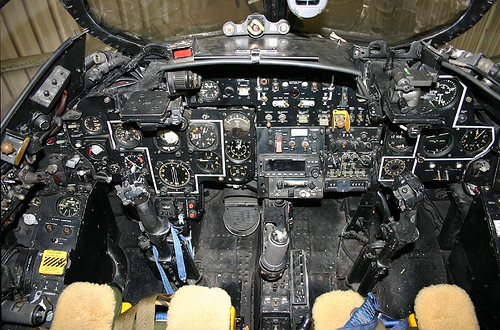 Cockpit view of Hunter One, VH-RHO. Photo taken on the 28th March 2005 after a local flight.